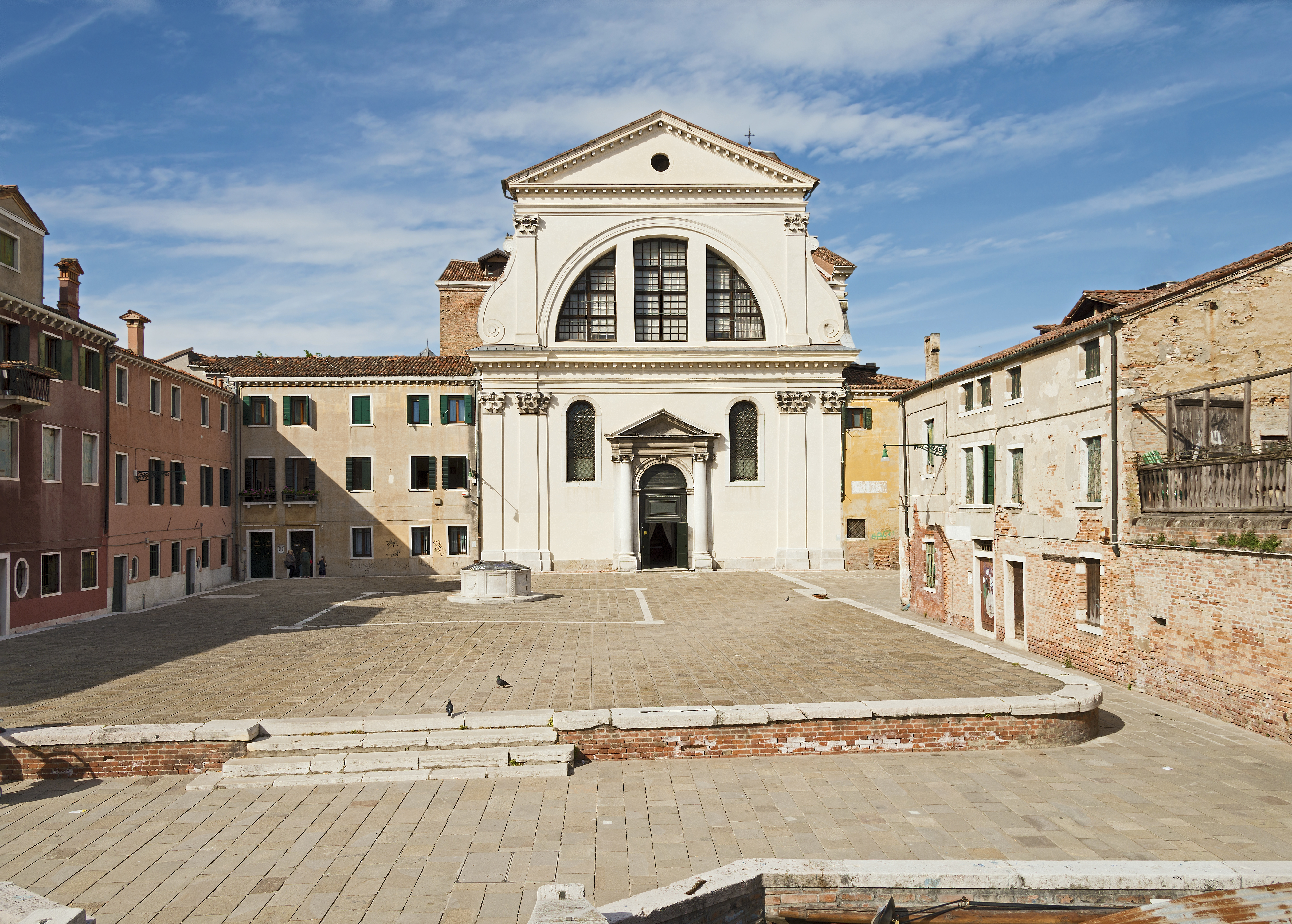 Venice – Church of San Trovaso – Facade and Campo